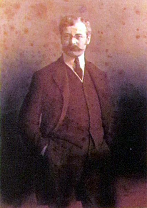 Jovan Jovanović Pižon